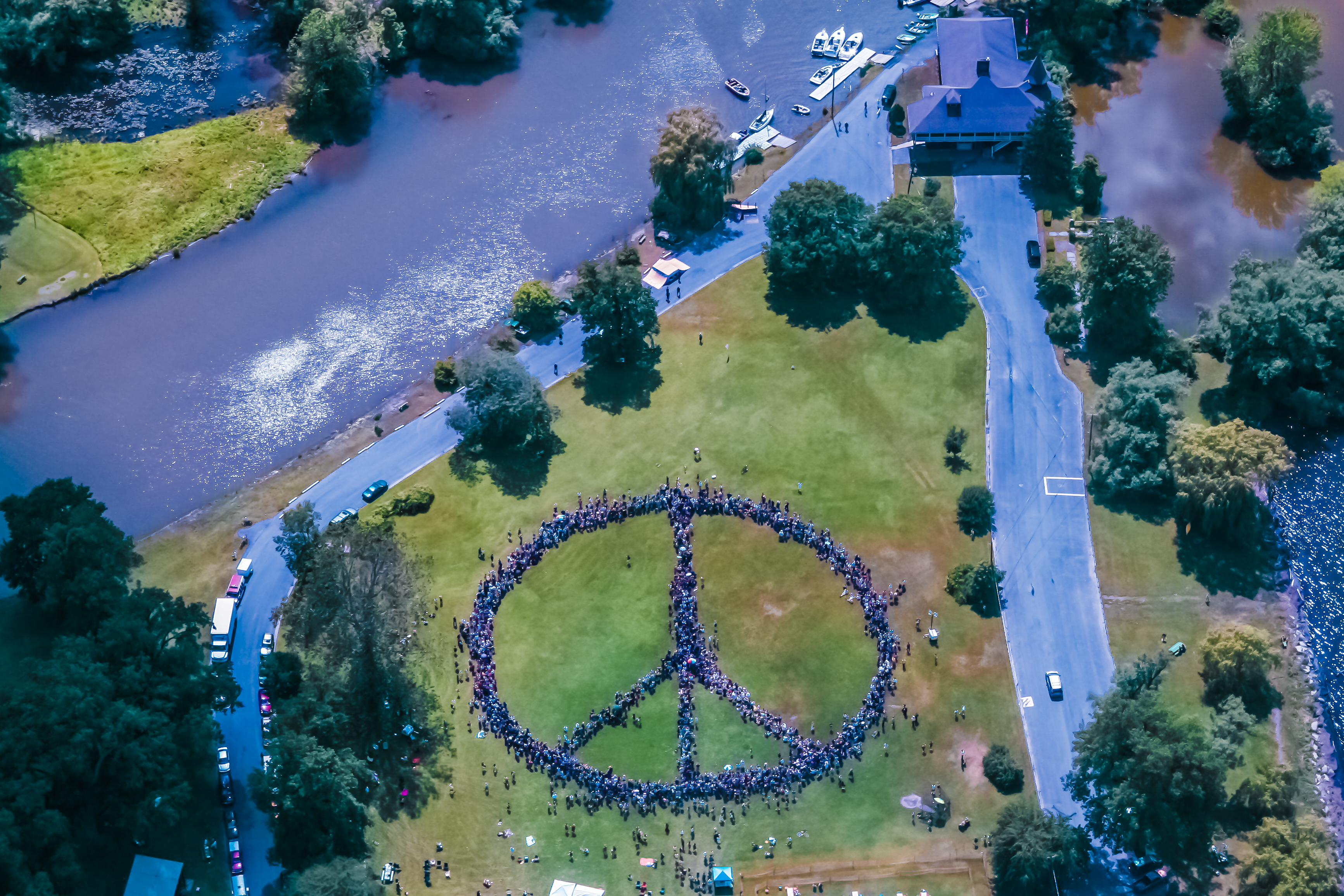 This symbolically represents an holistic approach to peacebuilding.